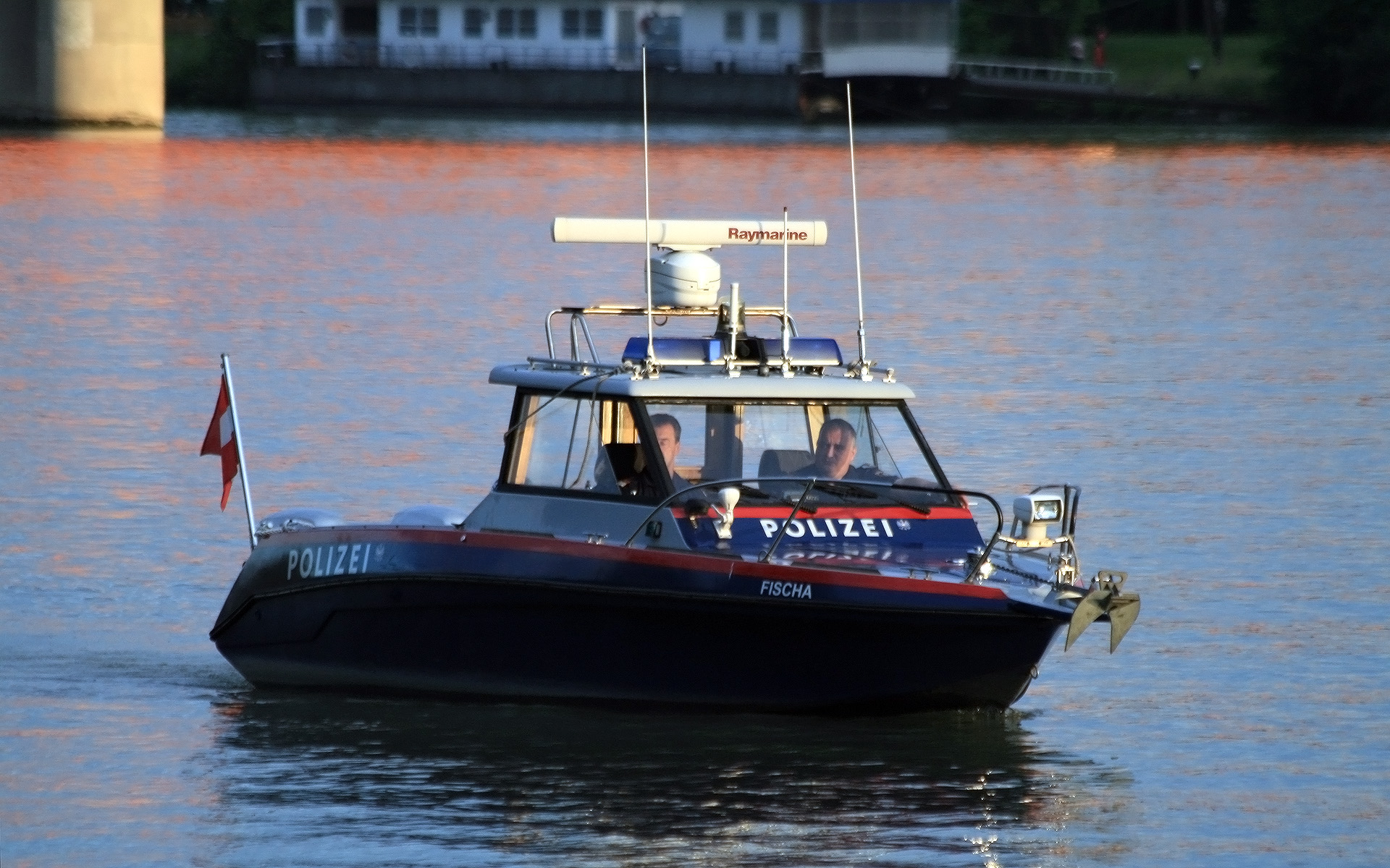 Boat Fischa of the Federal Police of Austria on the Danube during Donauinselfest 2011 in Vienna.